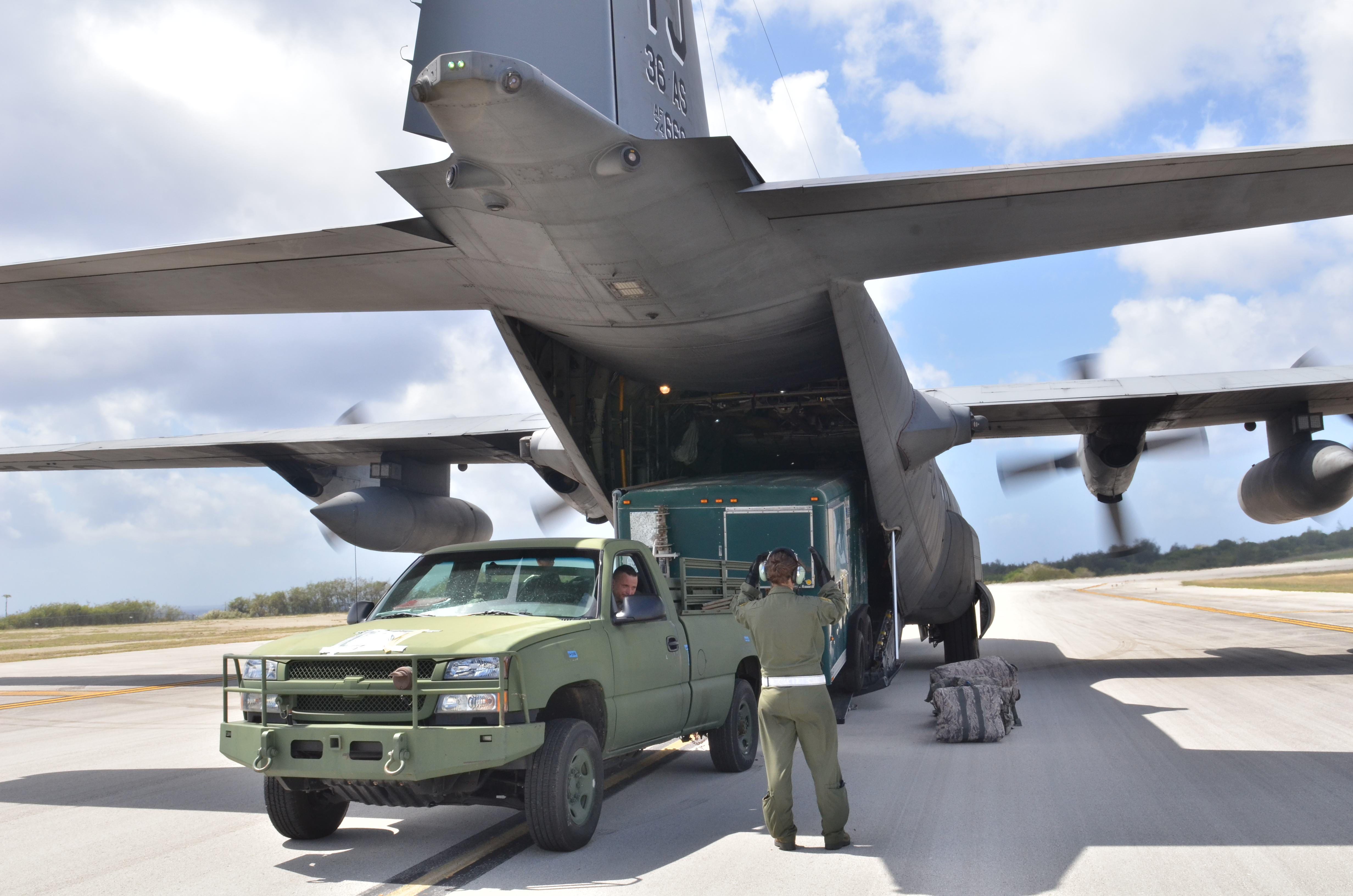 U.S. Air Force Airmen from the 36th Mobility Response Squadron and 36th Airlift Squadron, Yokota Air Base, Japan, unload a vehicle and a trailer from a C-130H Hercules onto the Tinian Airfield during exercise Cope North 2013 Feb. 5, 2013. Cope North is a multilateral aerial exercise, held once or twice yearly, designed to increase the combat readiness and interoperability of the U.S. Air Force, Japan Air Self-Defense Force, Royal Australian Air Force and other Pacific partner nations. (U.S. Air Force photo by Staff Sgt. Alex Montes/RELEASED)